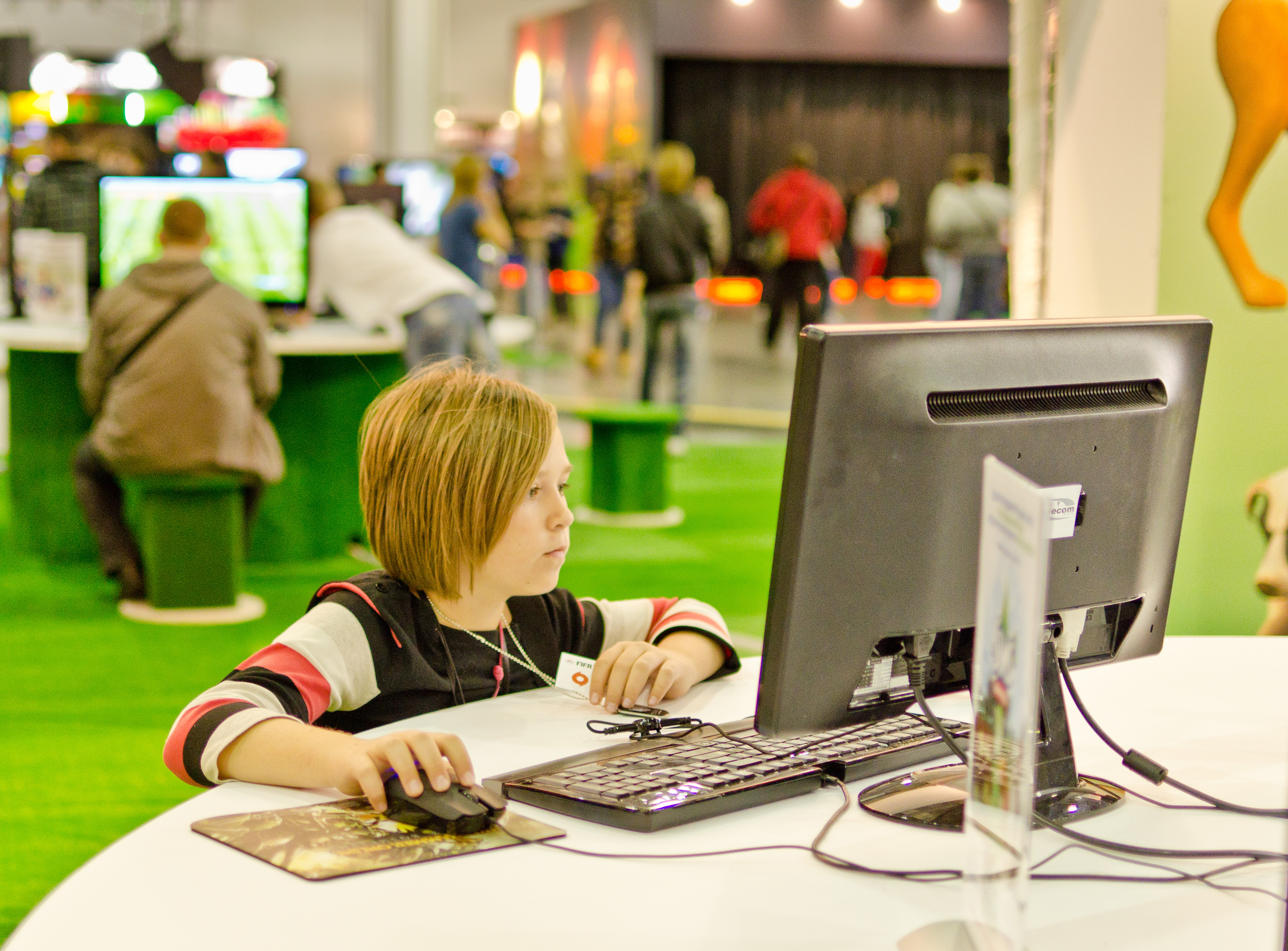 Girl playing The Sims 3 at Igromir 2011